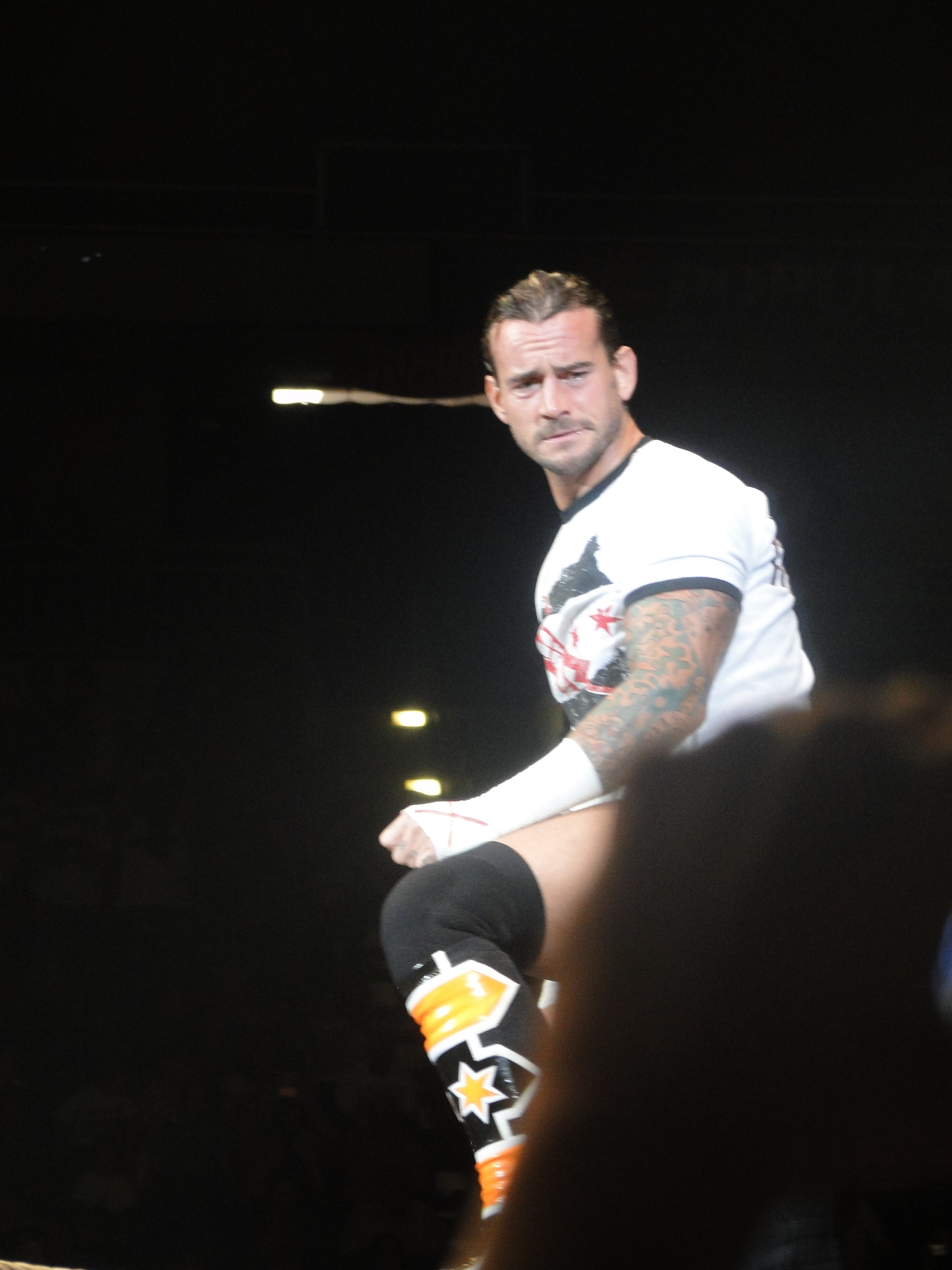 CM Punk at a live event in PR.